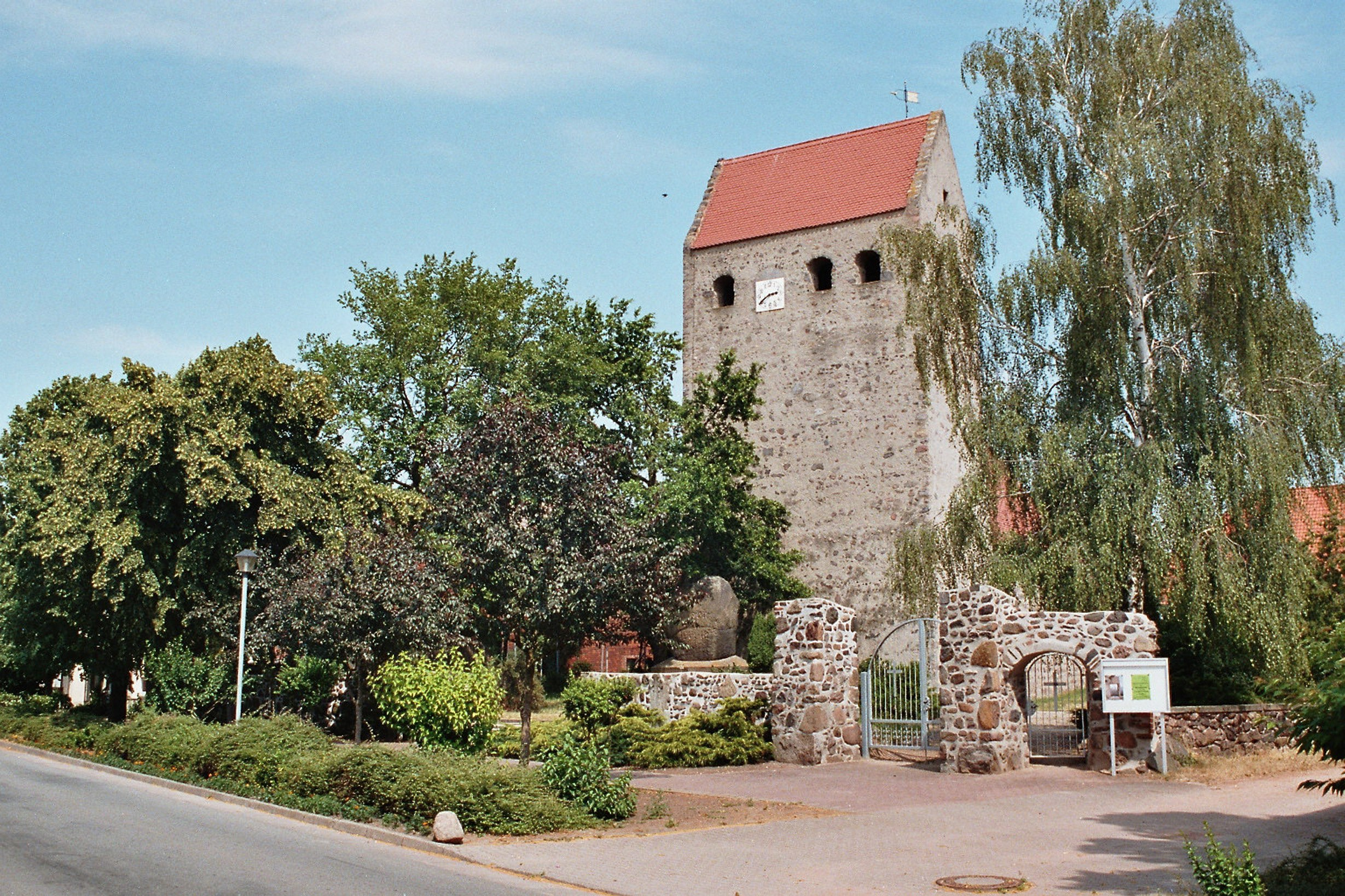 Körbelitz (Möser), the village church